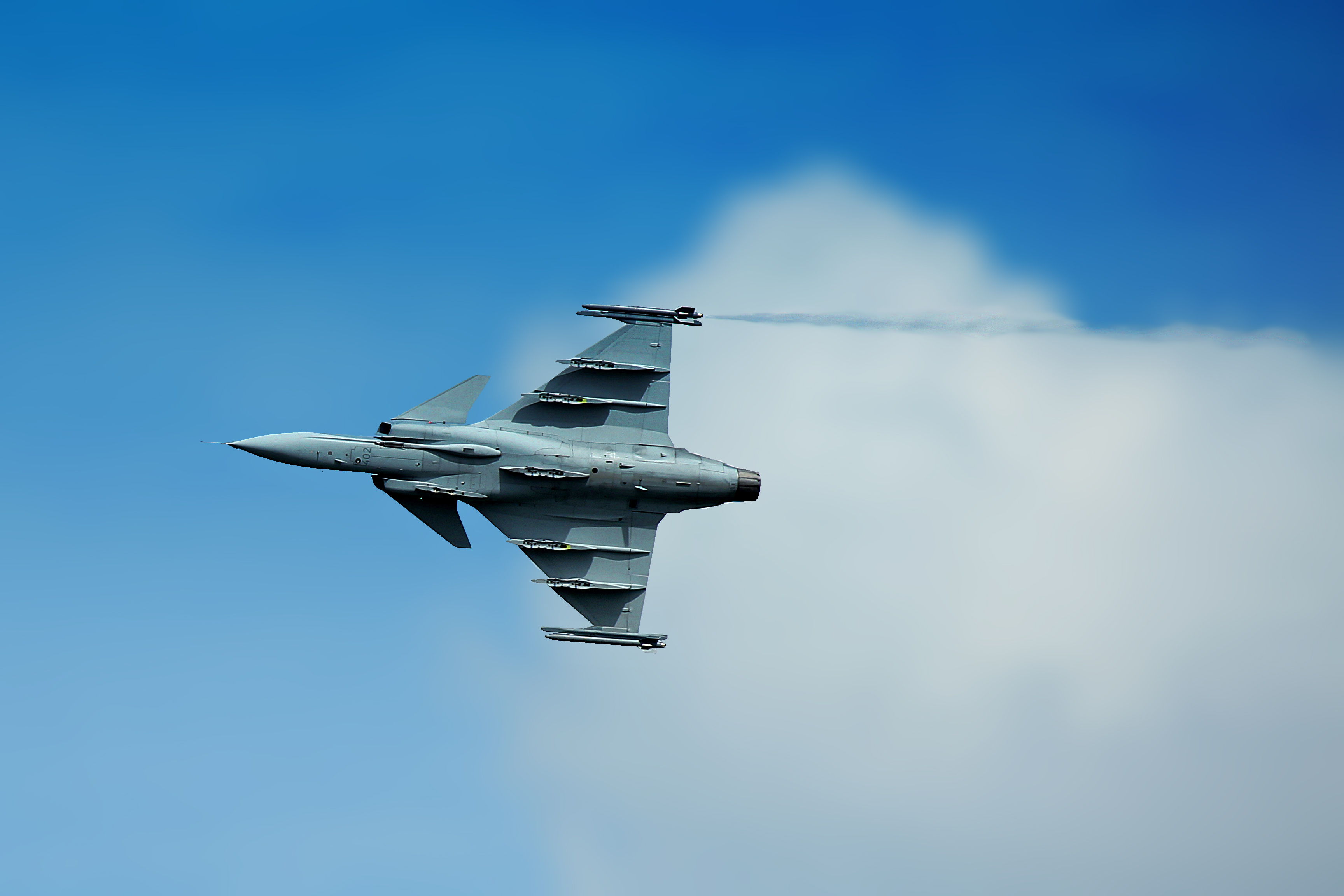 Royal Thai Air Force : SAAB Jas 39C Gripen, During air show at Don Maung Air Force Base in Bangkok, Thailand 2012